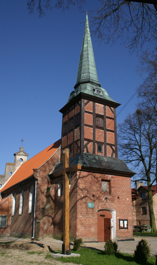 church